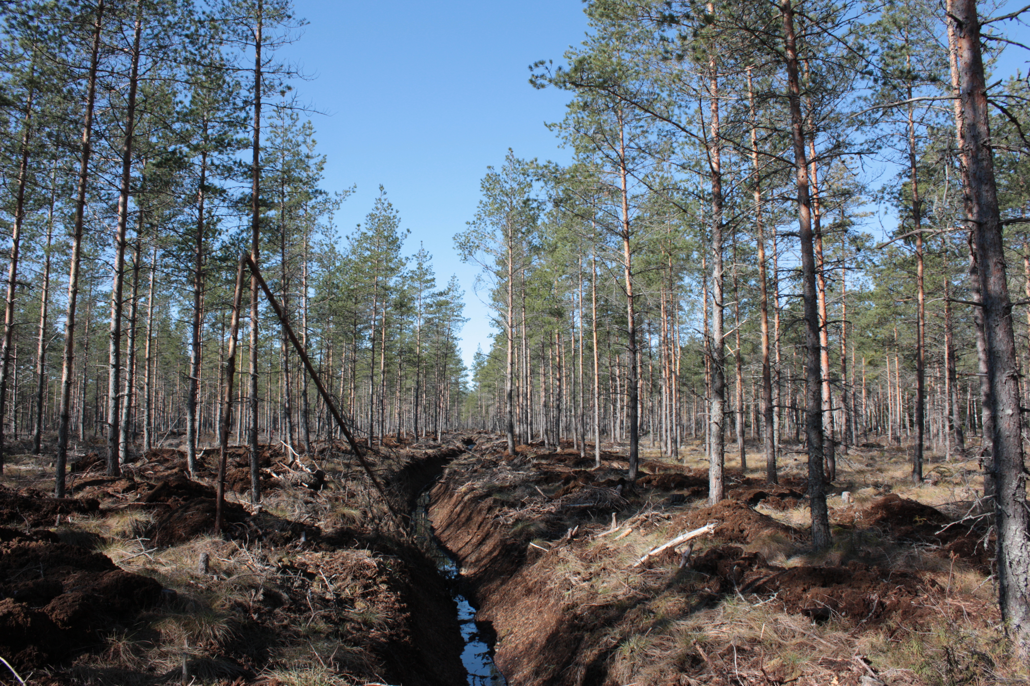 The Lammenrahka bog in Nousiainen and Masku, Finland